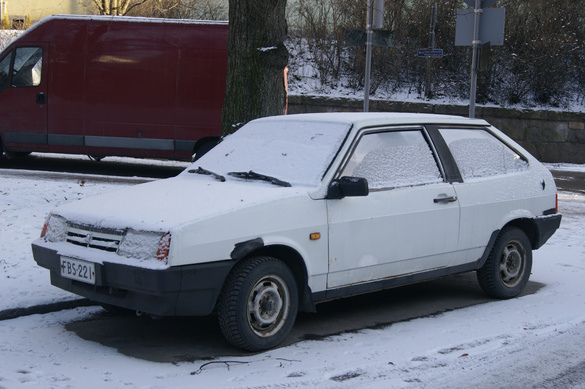 1997 Lada Samara